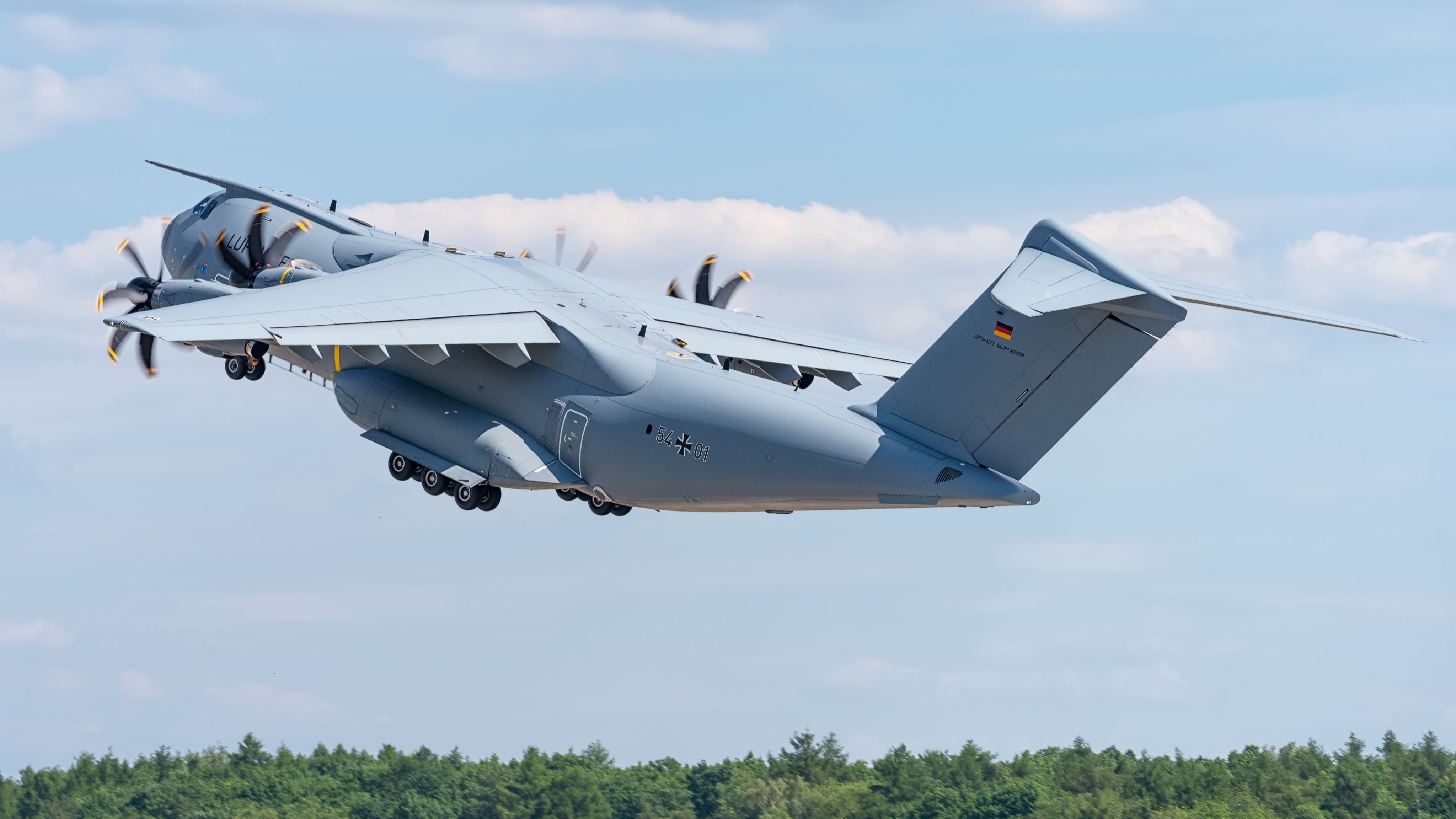 German Air Force Airbus A400M (reg. 54+01, cn 018) at ILA Berlin Air Show 2016.